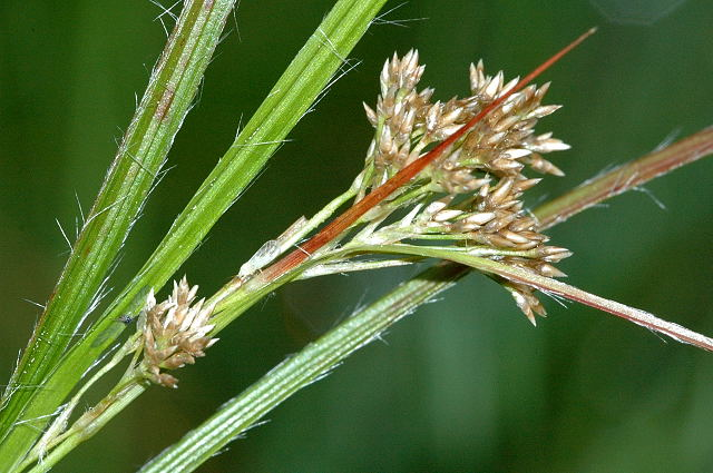 Luzula luzuloides in Commanster, Belgian High Ardennes.